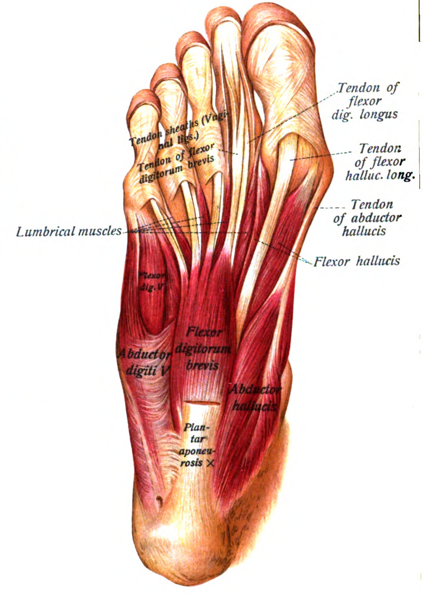 An anatomical illustration from the 1909 edition of Sobotta's Atlas and Text-book of Human Anatomy with English terminology.